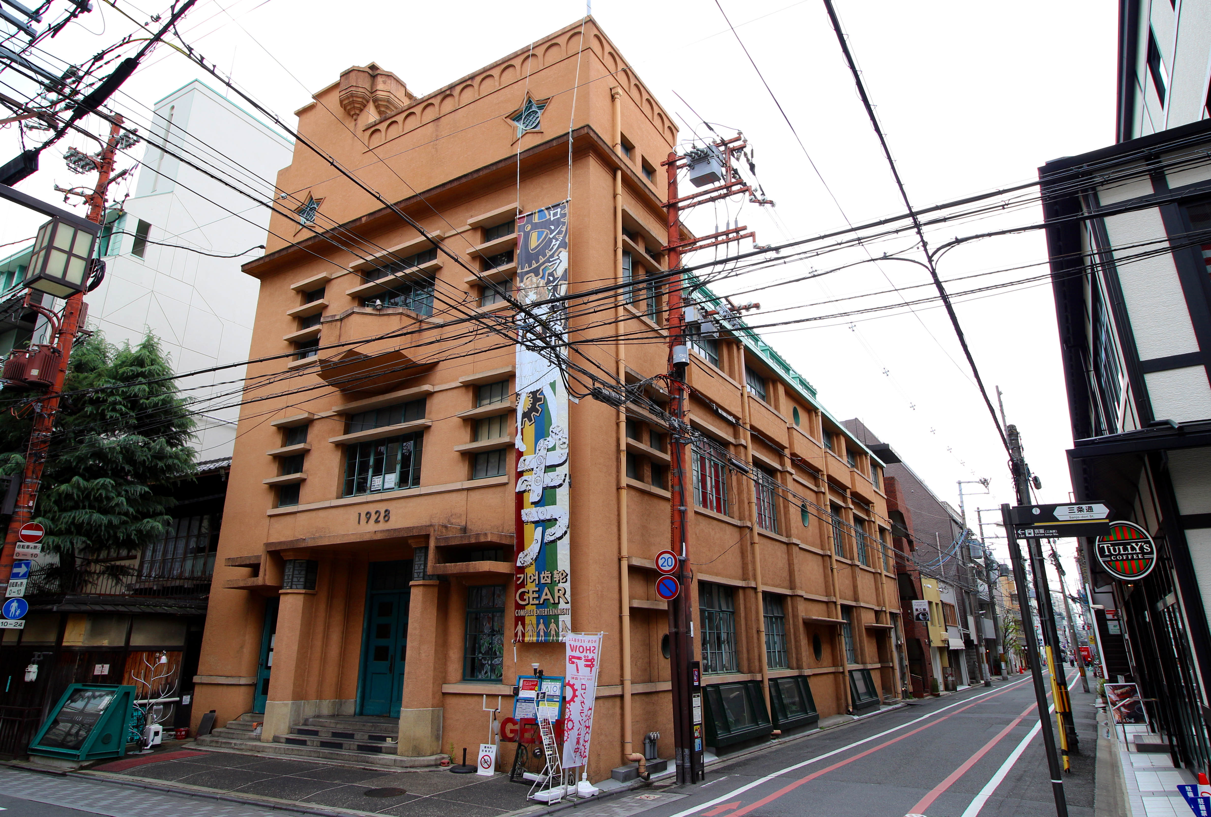 1928 Building in Kyoto, Japan.